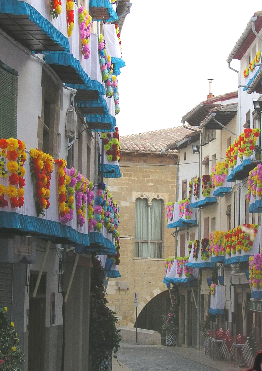 Adorned street. Sexenni 2012. Morella